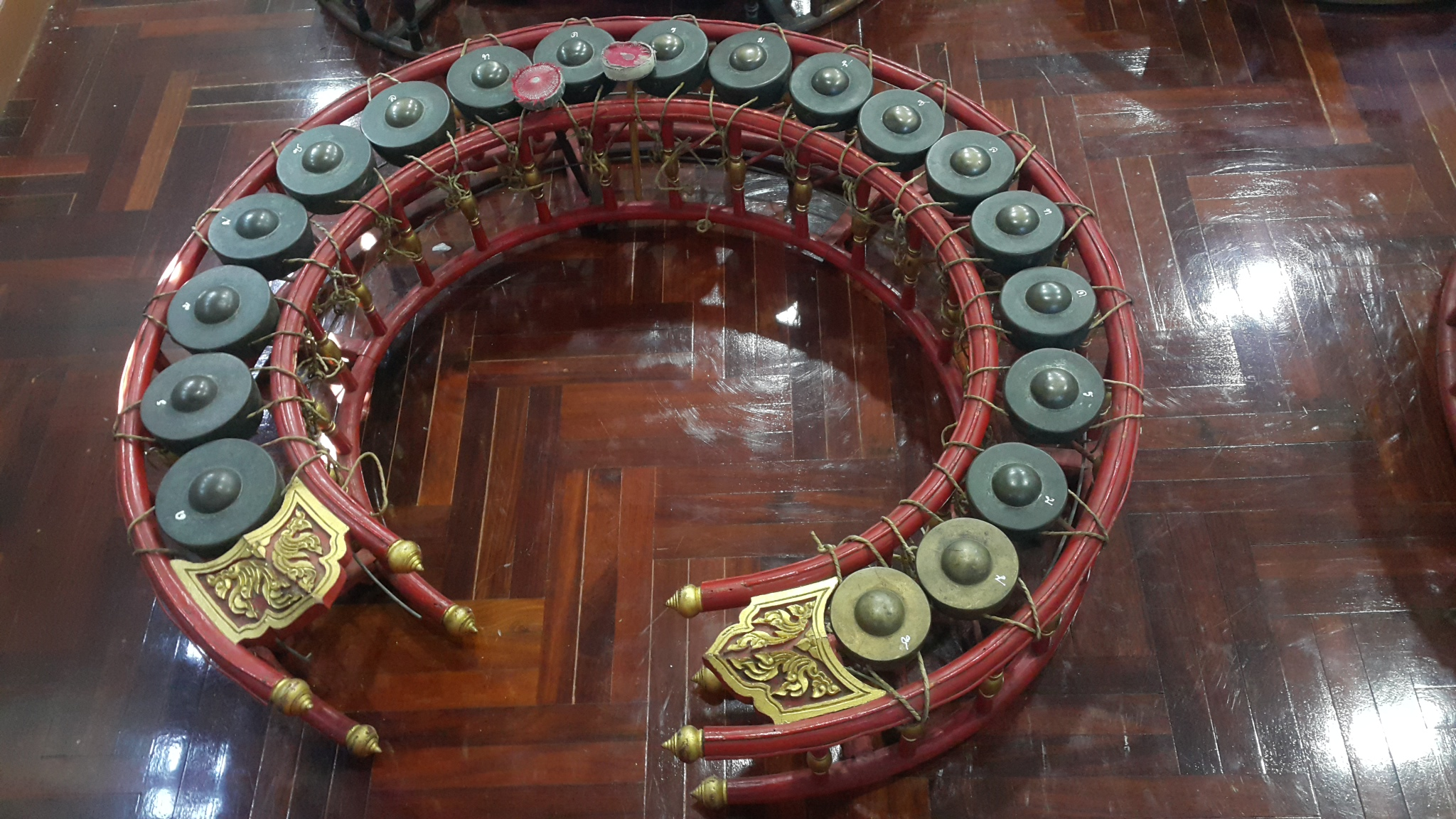 Thai instrument: Gong Wong Lek (ฆ้องวงเล็ก)